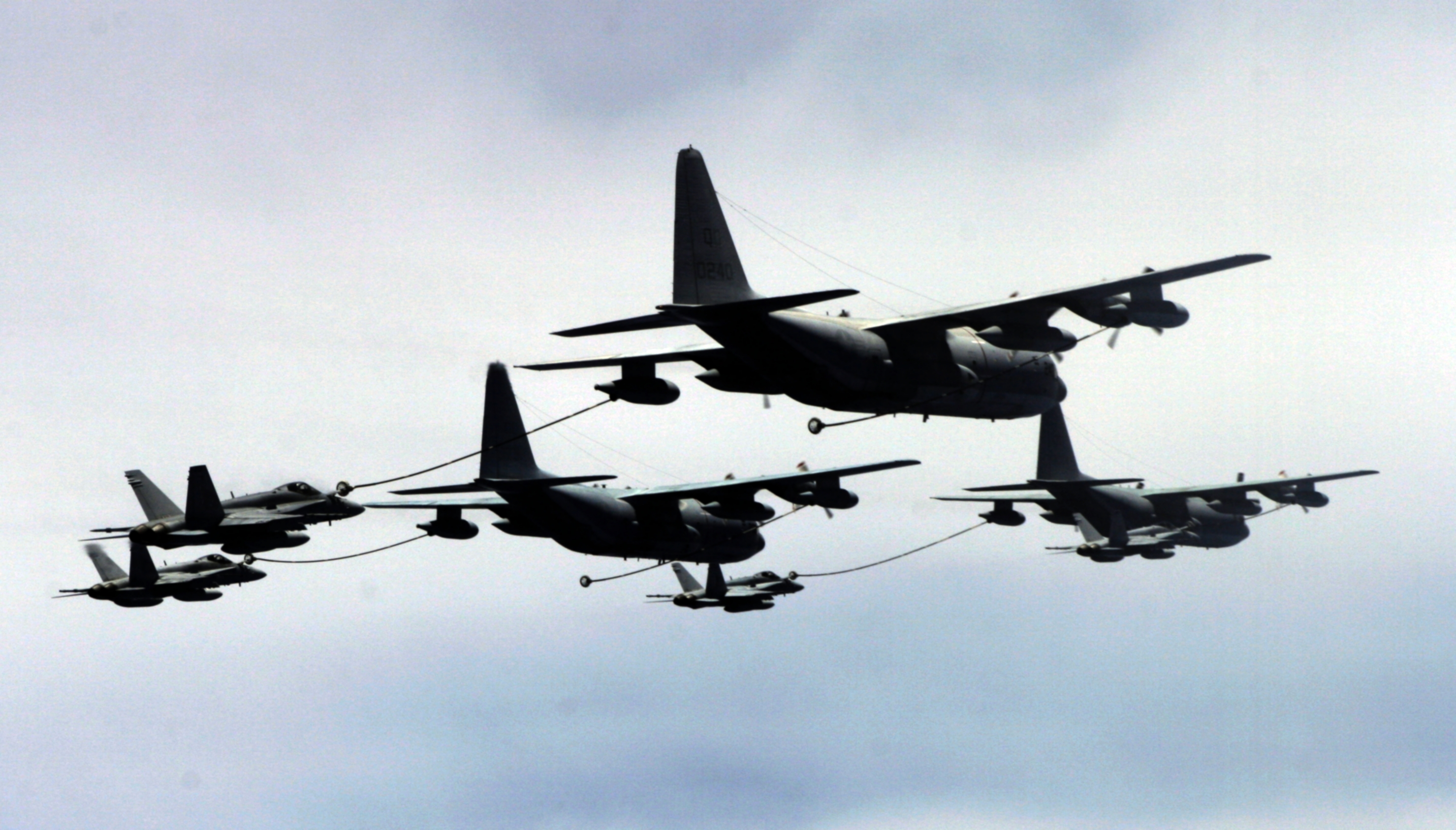 Four U.S. Marine Corps Lockheed KC-130R Hercules aircraft from Marine Aerial Refueler Transport Squadron 152 (VMGR-152), 1st Marine Aircraft Wing (1 MAW), refuel six U.S. Navy Navy F/A-18C Hornet fighters from Strike Fighter Squadron VFA-97 in a refueling mission to Andersen Air Force Base, Guam (USA), on 16 June 2006. The Marines were supporting exercise "Valiant Shield 2006", a joint interoperability exercise involving 10 air bases, three carrier strike groups and the U.S. Coast Guard.